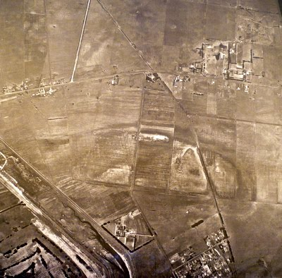 McLeod Road, Wells Road and Thompson Road Carrum before the Patterson Lakes development. Priestley's farm in foreground, Woodward's Abattiors right background. c 1960